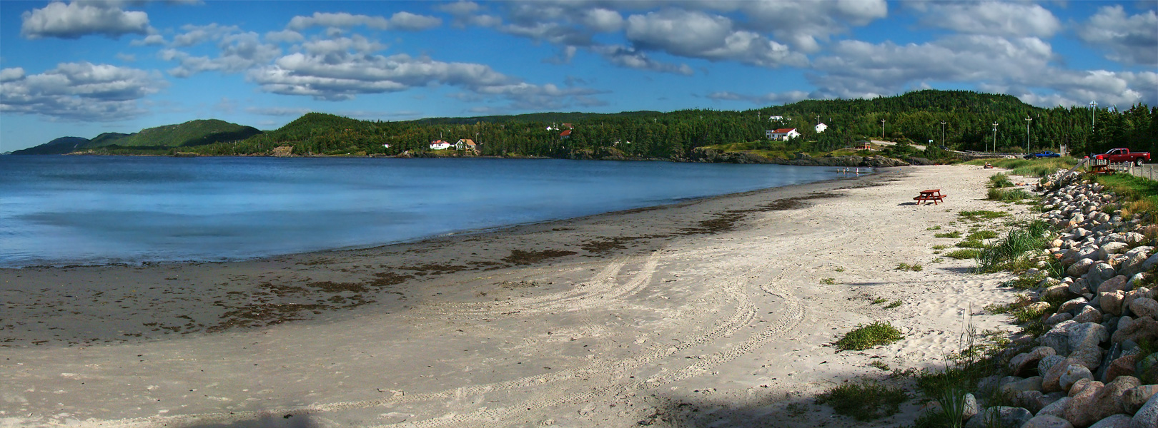 Eastport Beach, Eastport Peninsula, Central Newfoundland, Canada.